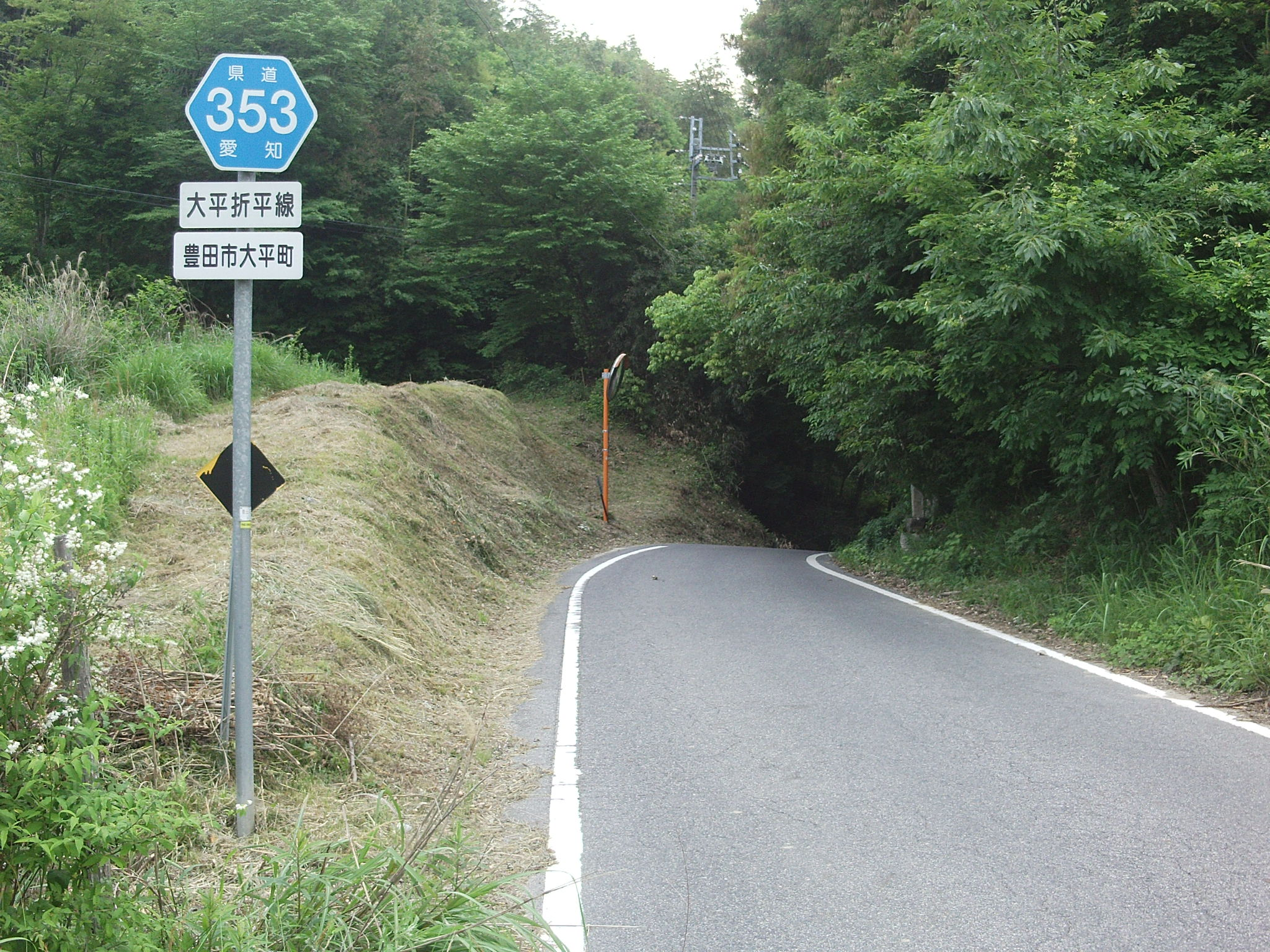 Aichi prefectural road No.353 in Odairacho, Toyota, Aichi.